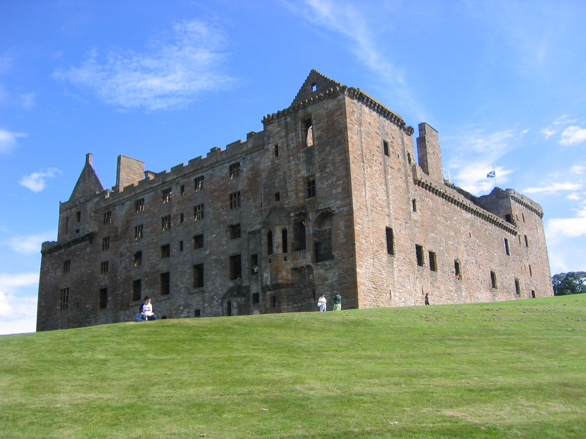 Linlithgow Palace Looking south-east towards the Palace with the loch behind me.